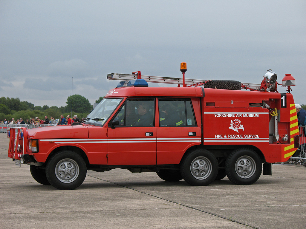 The Yorkshire Air Museum Range Rover Airport Crash Tender photographed at RAF Elvington on the 18 of August 2007 by Brian Burnell.